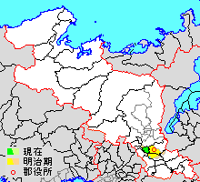 Location Map of Kumiyama in Kyoto-fu, Japan